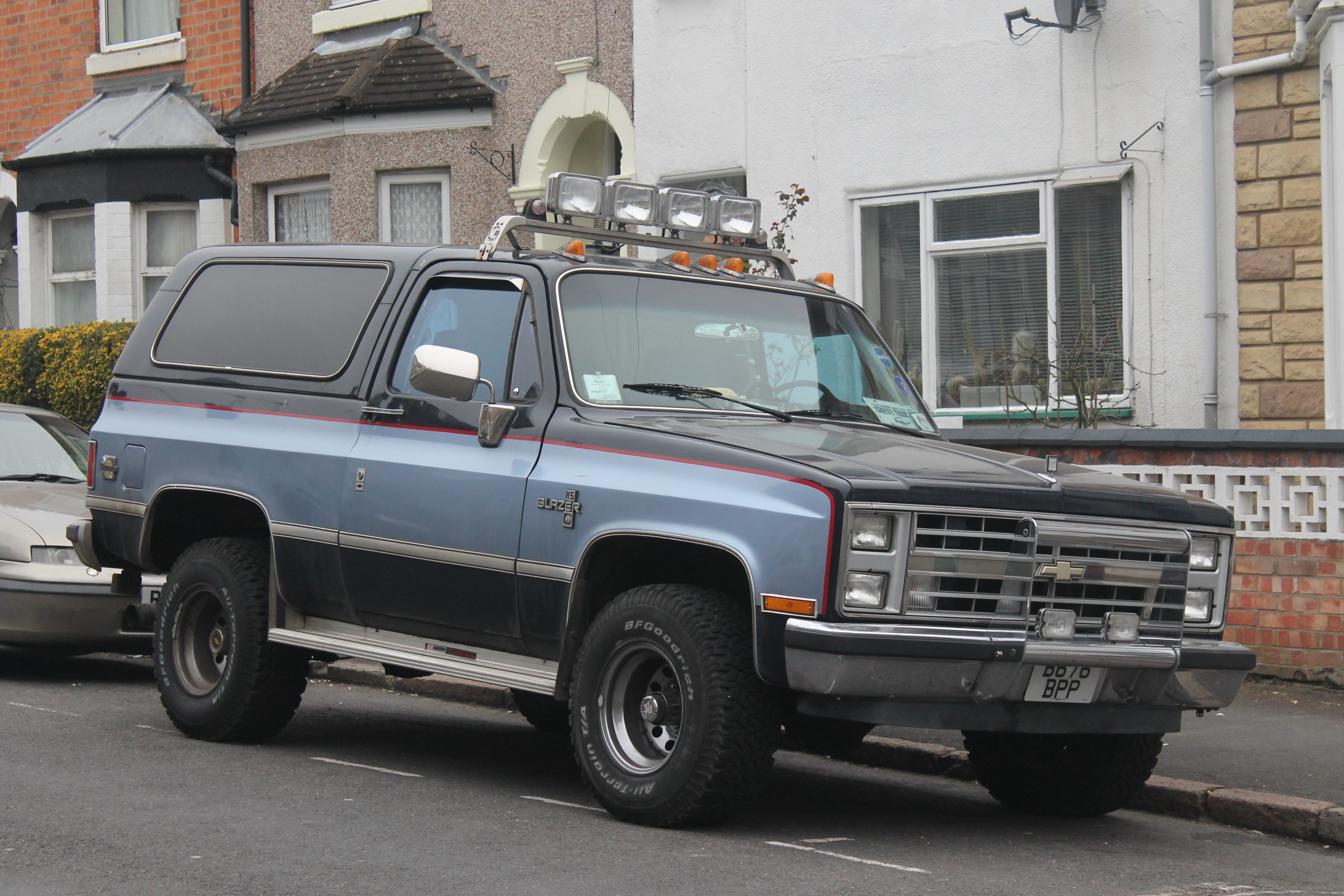 Quite A ridiculously massive thing, this was actually the smallest full-size SUV GMC offered at the time! As you can imagine, stood out a mile on a UK suburban street in 2014! This one has a massive 6.2 litre V8 diesel engine, bet it sounds great! Really looks the part with all those spotlights and everything. This would be terrifying roaring up behind you! This one was imported in 1991, so spent 6 years in the states and 23 over here. Not your everyday spot and even more interesting to see out of a show parked on the street. The vehicle details for B676 BPP are: Date of Liability 01 08 2014 Date of First Registration 18 03 1991 Year of Manufacture 1985 Cylinder Capacity (cc) 6200cc CO₂ Emissions Not Available Fuel Type HEAVY OIL Export Marker N Vehicle Status Licence Due to Expire Vehicle Colour BLUE Vehicle Type Approval Not Available